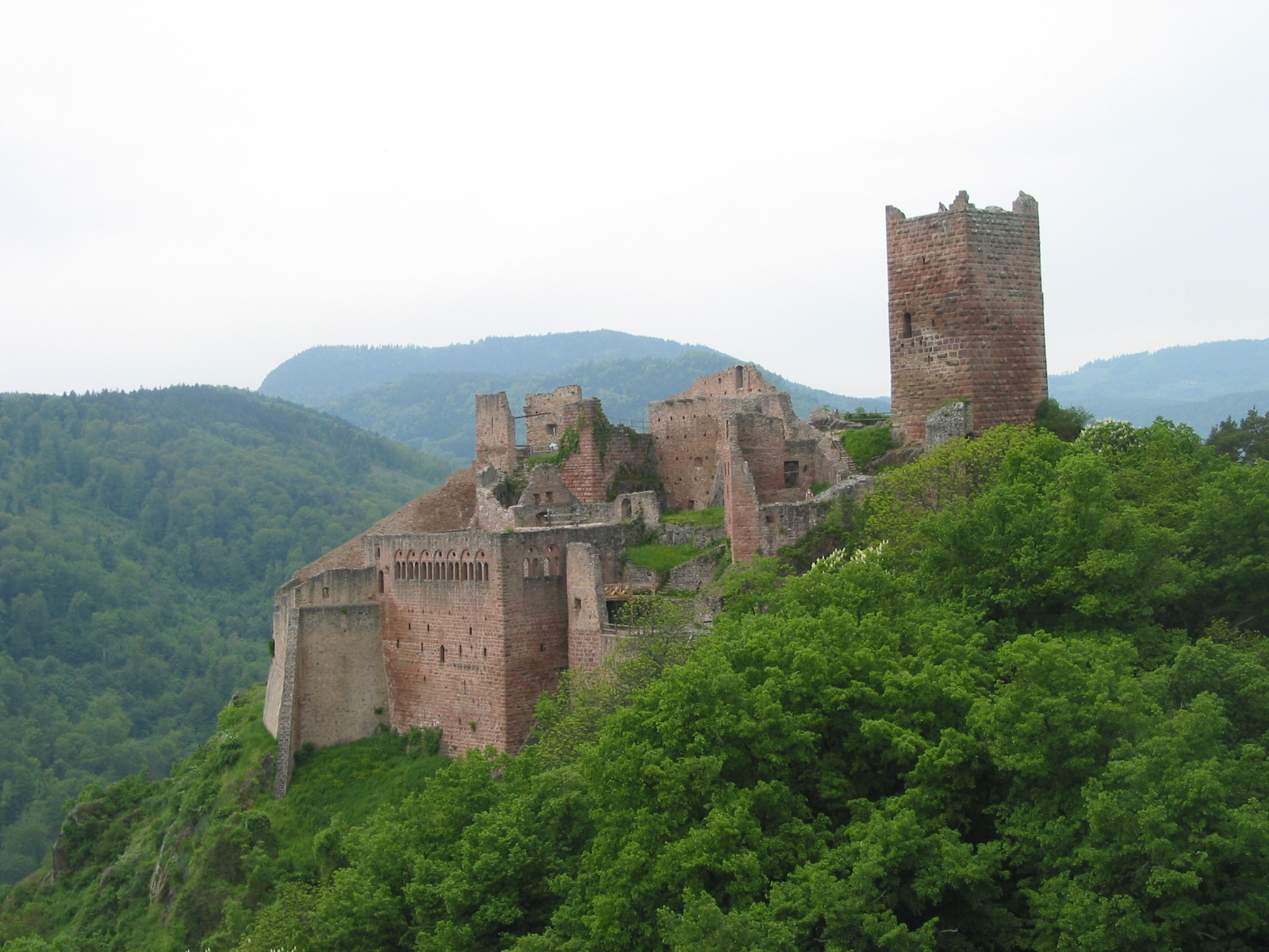 St. Ulrich, Fortress, Ribeauvillé